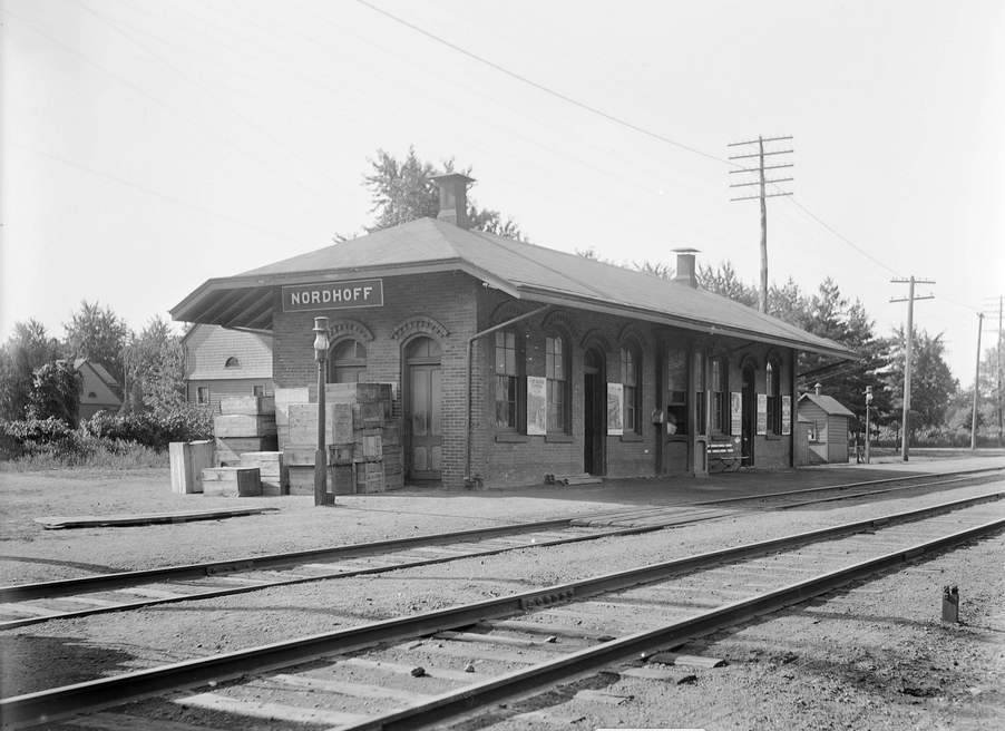 Erie Railroad's Northern Branch Nordhoff Station in southwestern Englewood, NJ (later of Sheffield Avenue) circa 1900-1909 Print from a glass plate negative, Erie Railroad photo. New York Division (Northern RR of NJ). From the collection of Steamtown National Historic Site archives, image #B-14